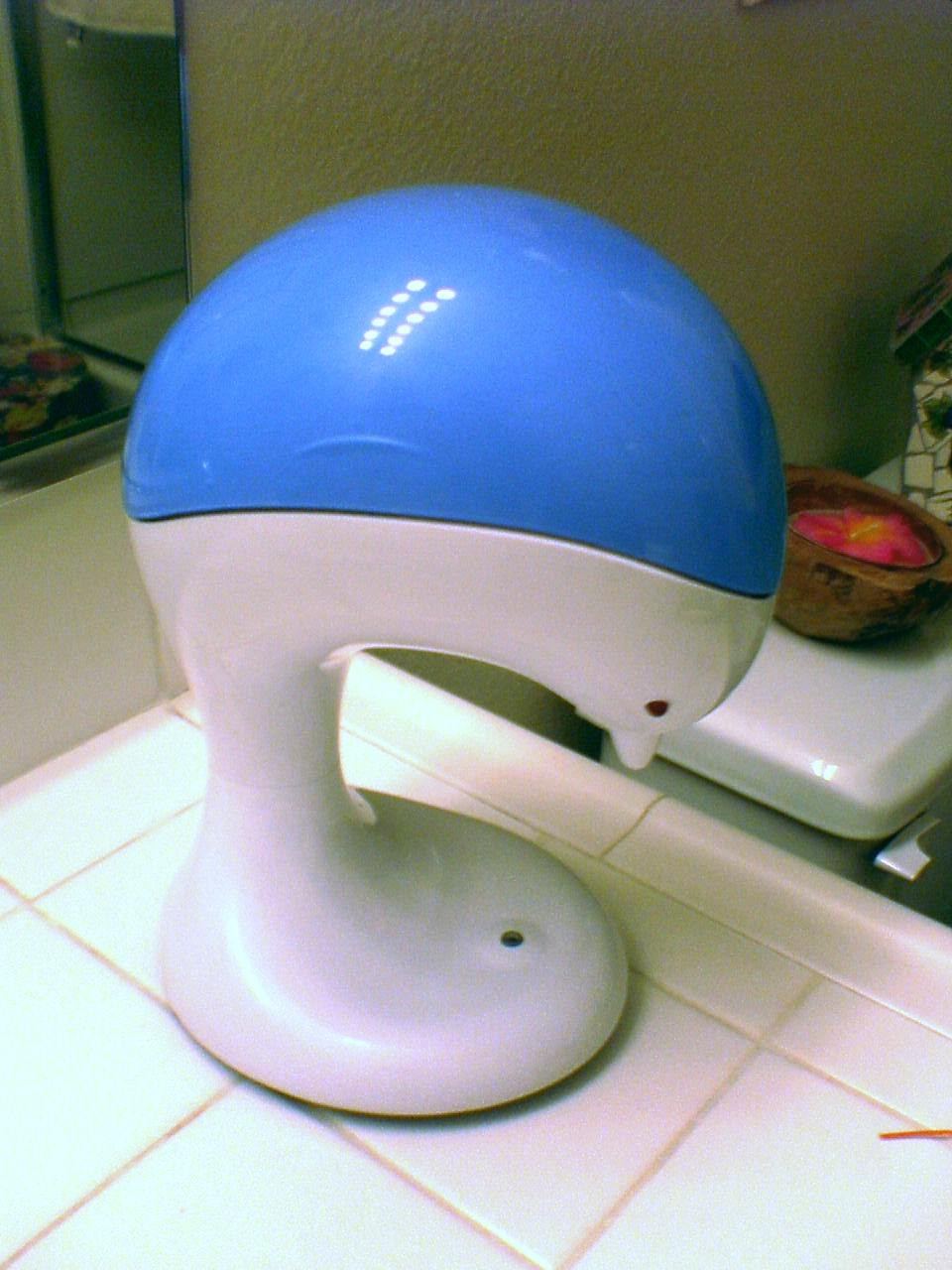 Automatic Soap Dispenser.from english wikipedia : 19:58, 10. Nov. 2005 . . Snowfalcon: I, the photographer, release all rights to this photograph worldwide. Photo take on November 10, 2005.